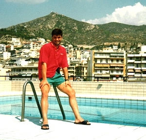 Picture of Georgi Mihalev, Bulgarian swimmer